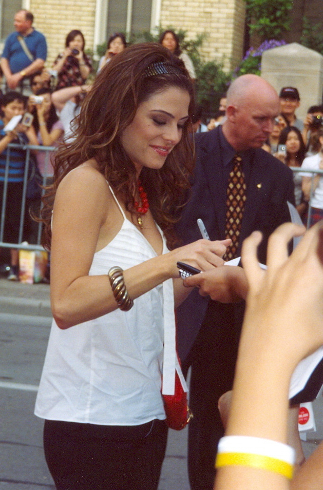 Maria Menounos signing autographs at the 2005 Toronto International Film Festival.